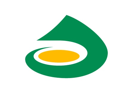 Flag of Awara Fukui